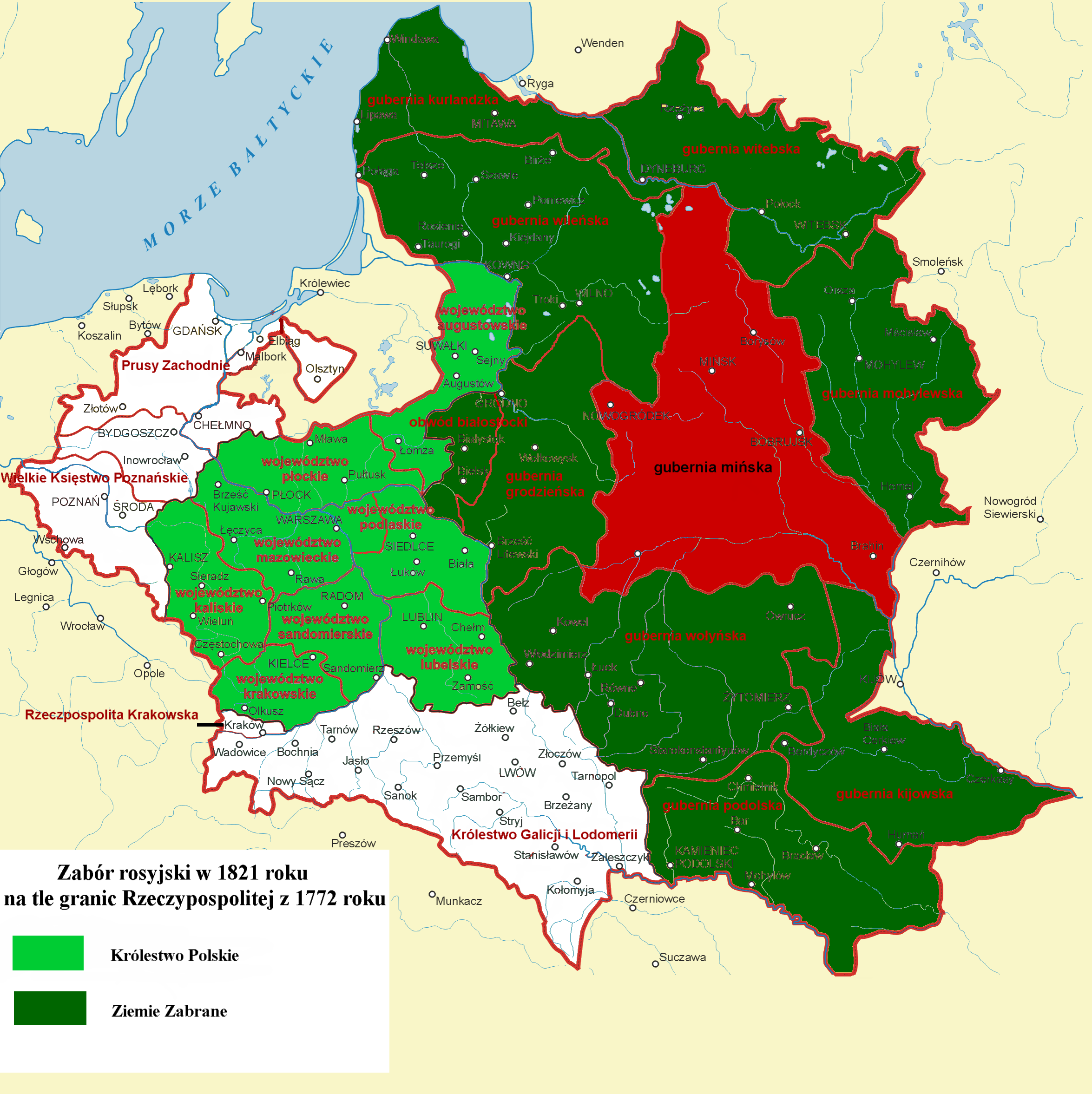 Minsk Governorate in 1821